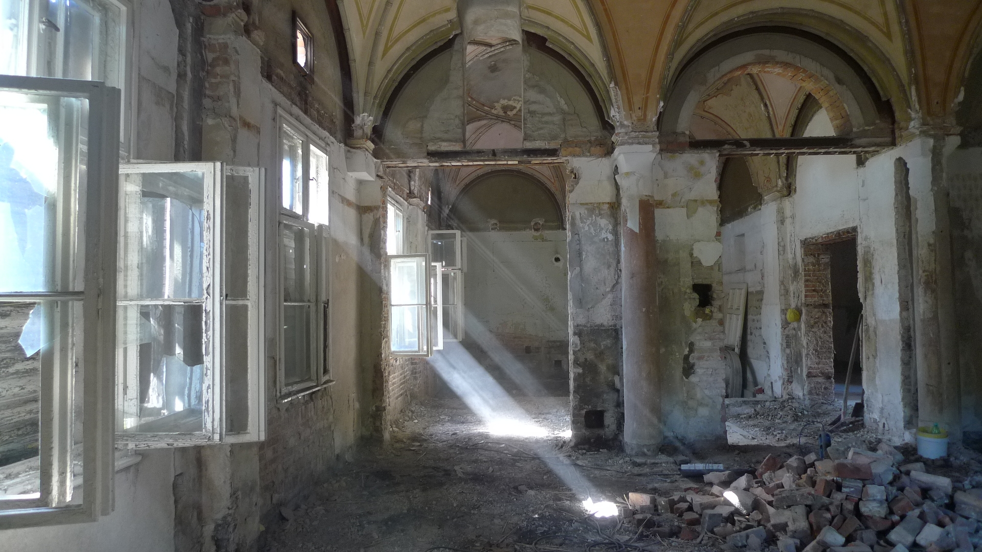 Kaiserbahnhof Halbe Interior 2010